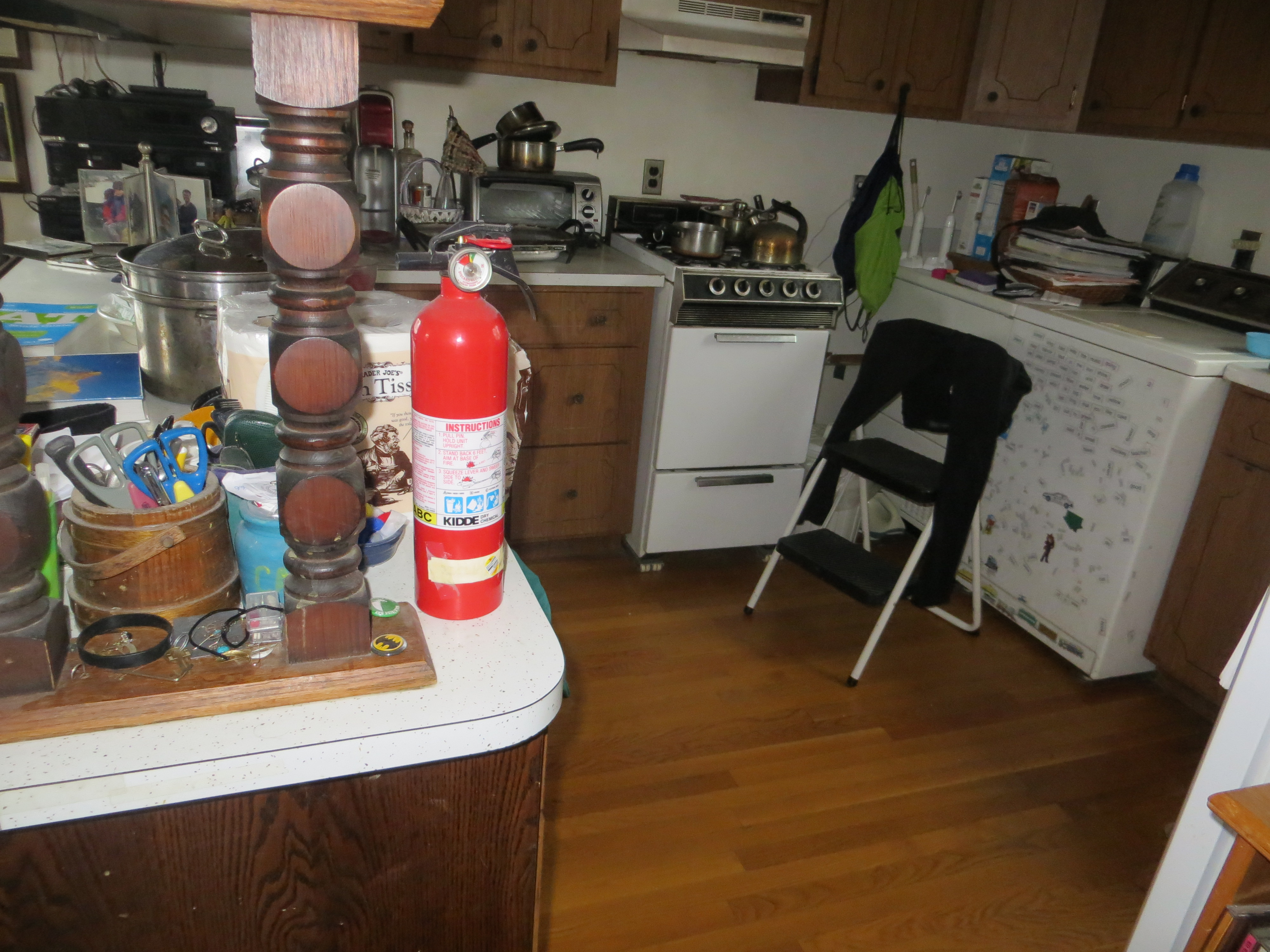 Kitchen Fire Extinguisher